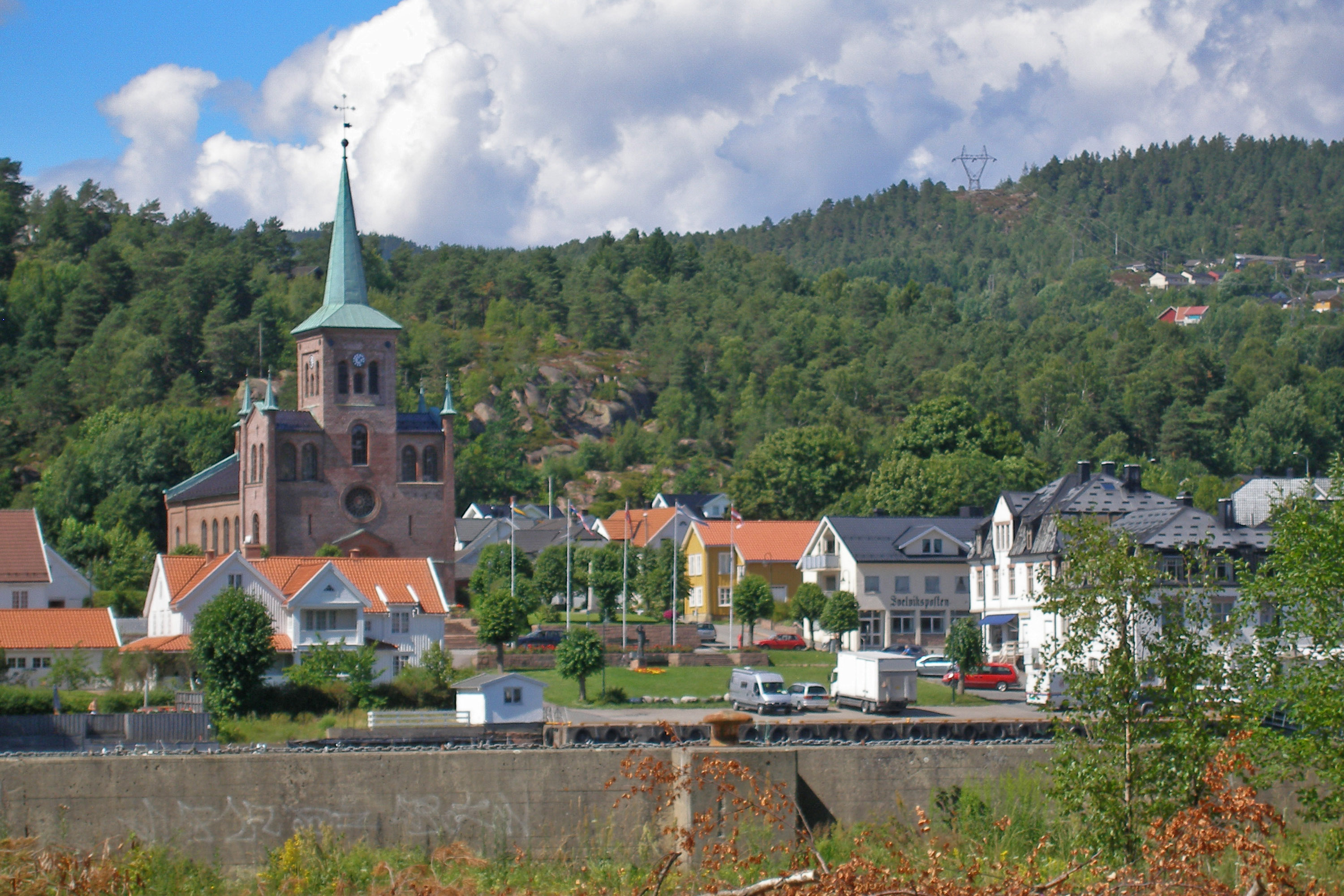 Svelvik in Vestfold fylke, Norway.